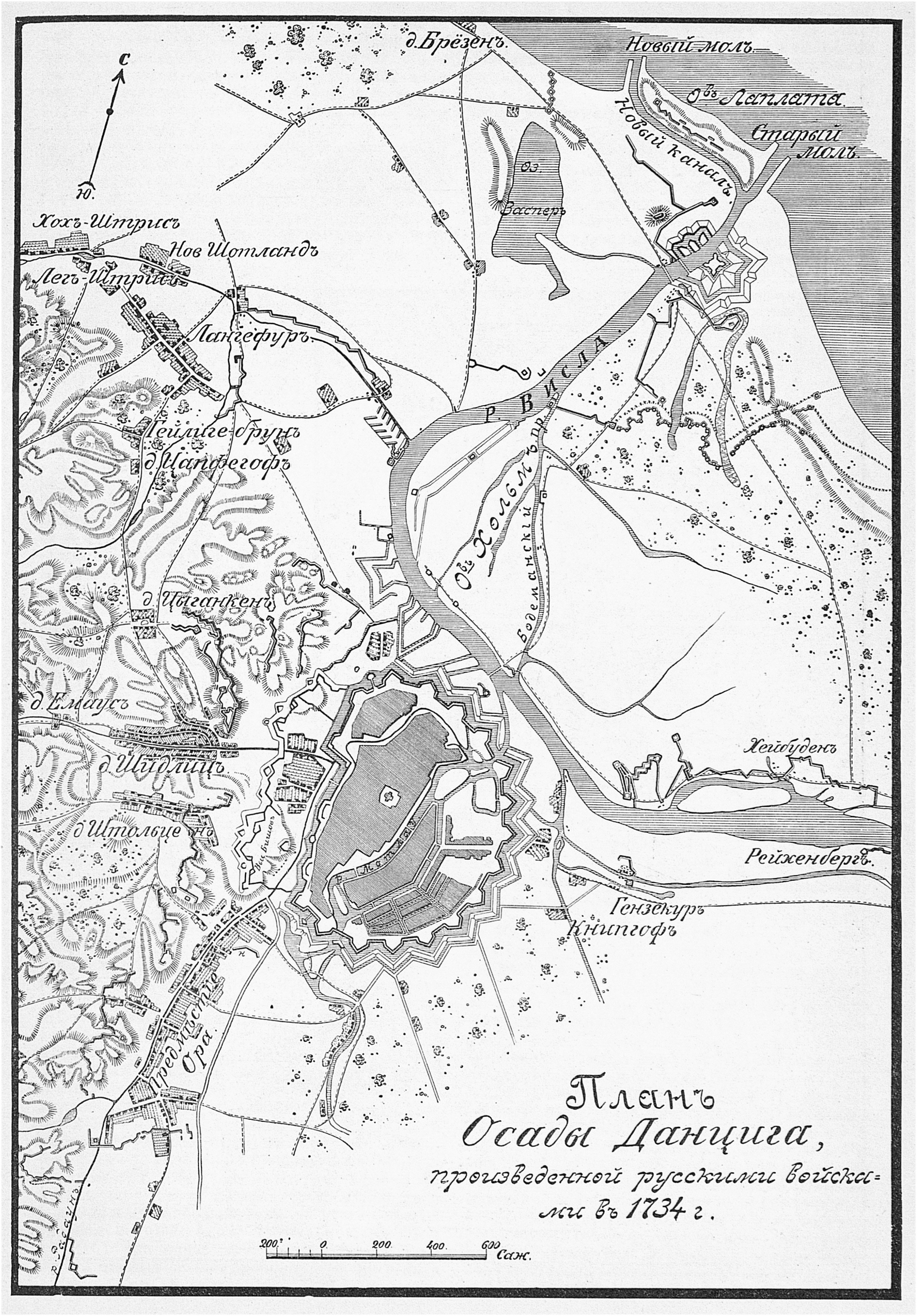 Siege of Danzig 1734